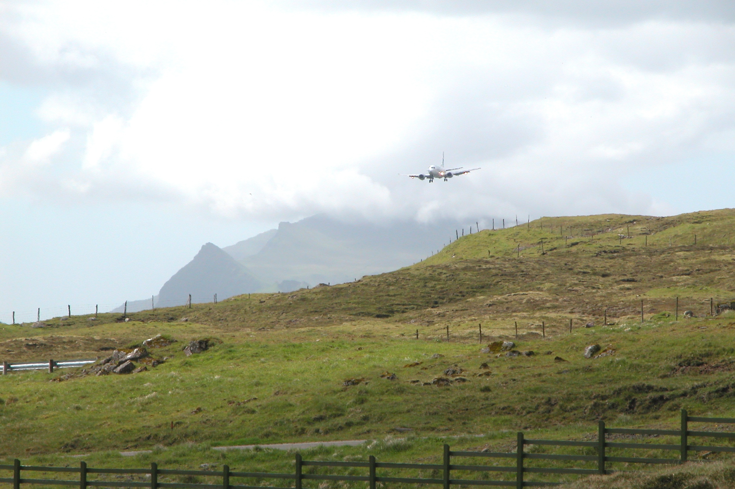 Plane landing Vágar Airport on Vágar, Faroe Islands.